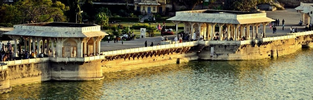 ajmer